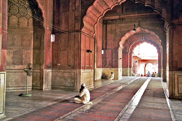 Jama Masjid, New Delhi, India